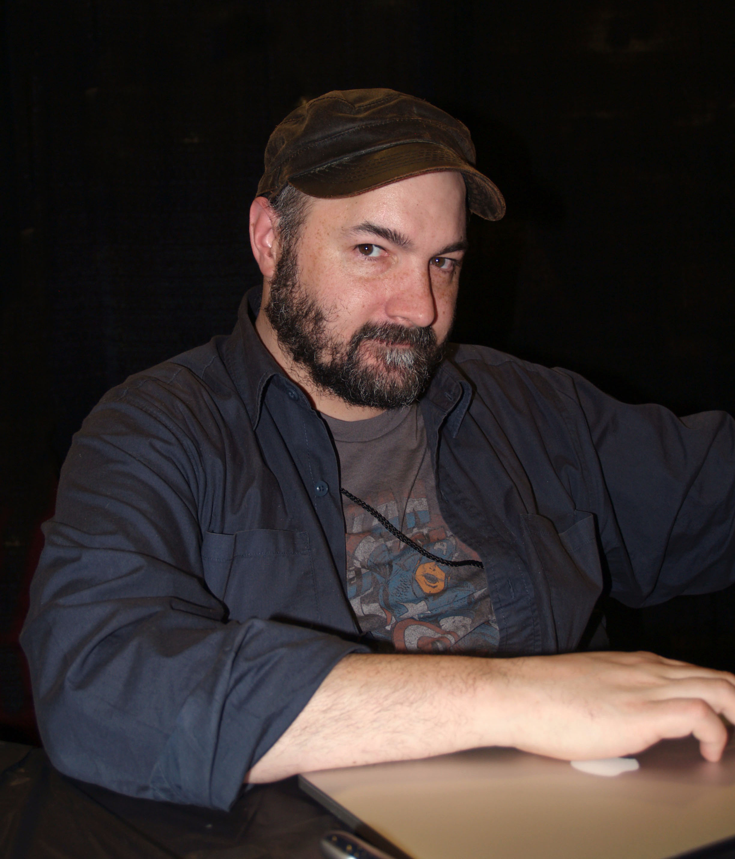 Novelist, comics writer and editor David Gallaher at the Meadowlands Exposition Center in Secaucus, New Jersey on April 11, 2015, Day 1 of the 2015 East Coast Comicon. This photo was created by Luigi Novi. It is not in the public domain, and use of this file outside of the licensing terms is a copyright violation.